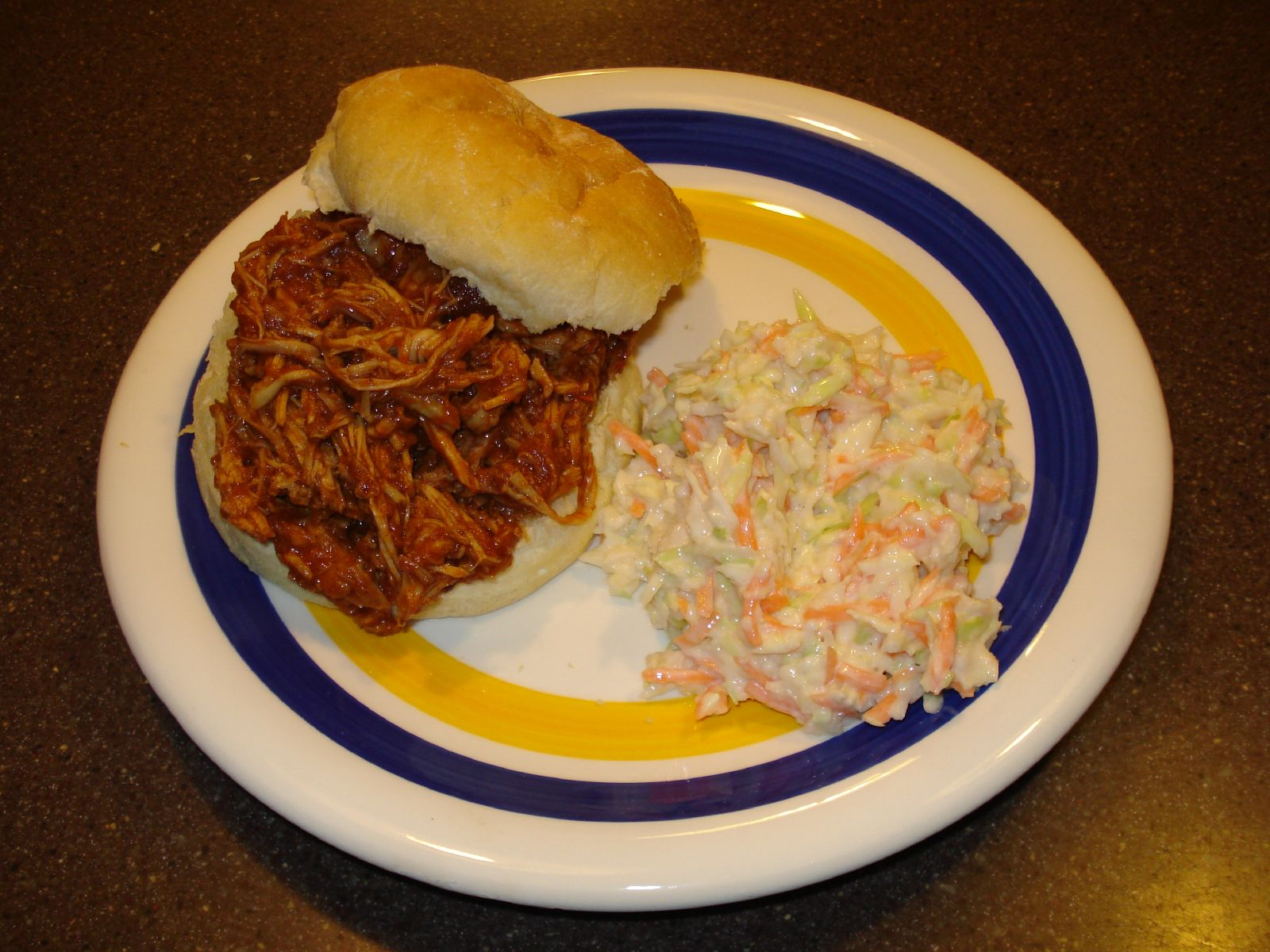 Pulled pork in BBQ sauce sandwich with slaw